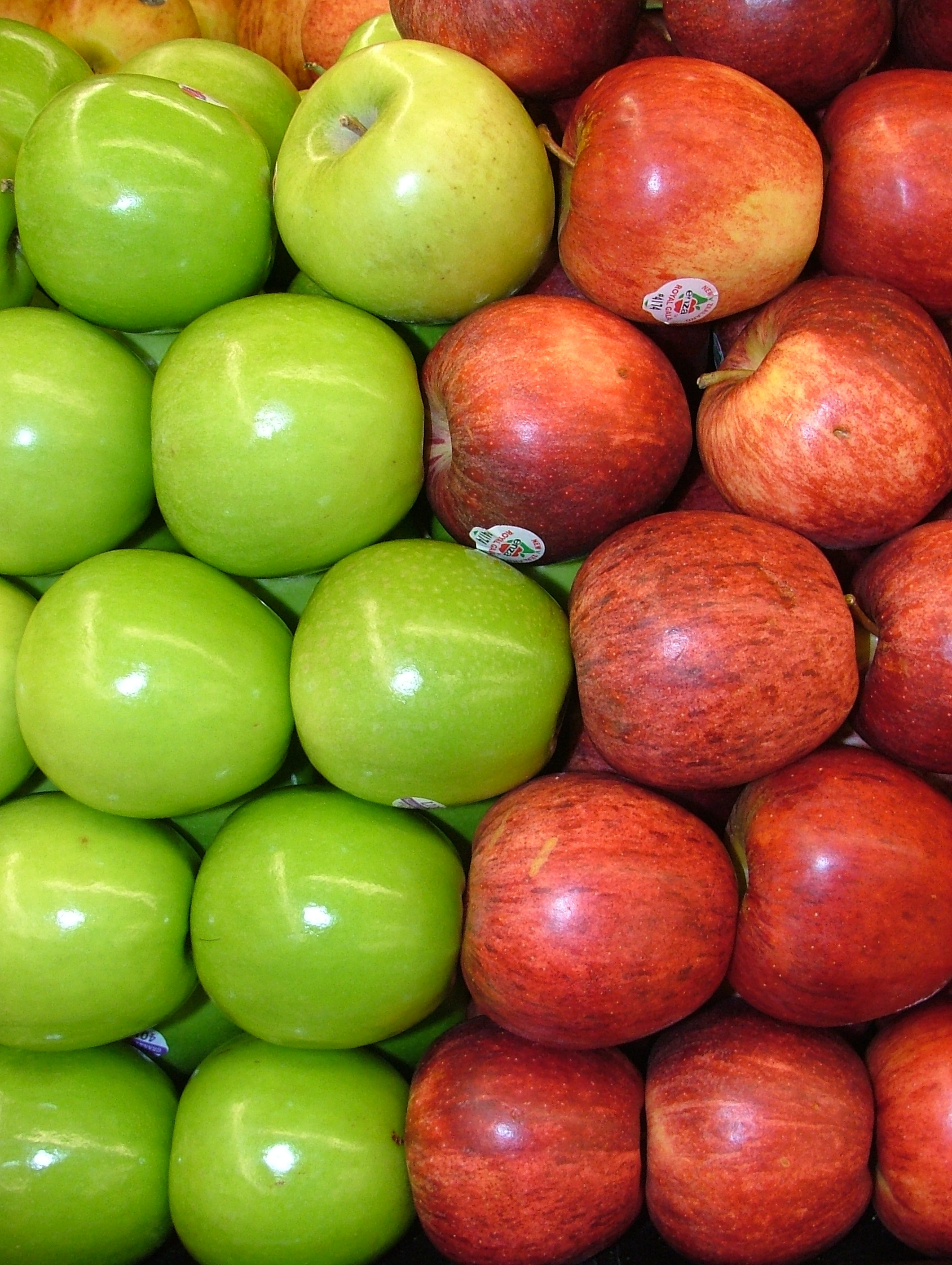 A photograph of red and green apples.